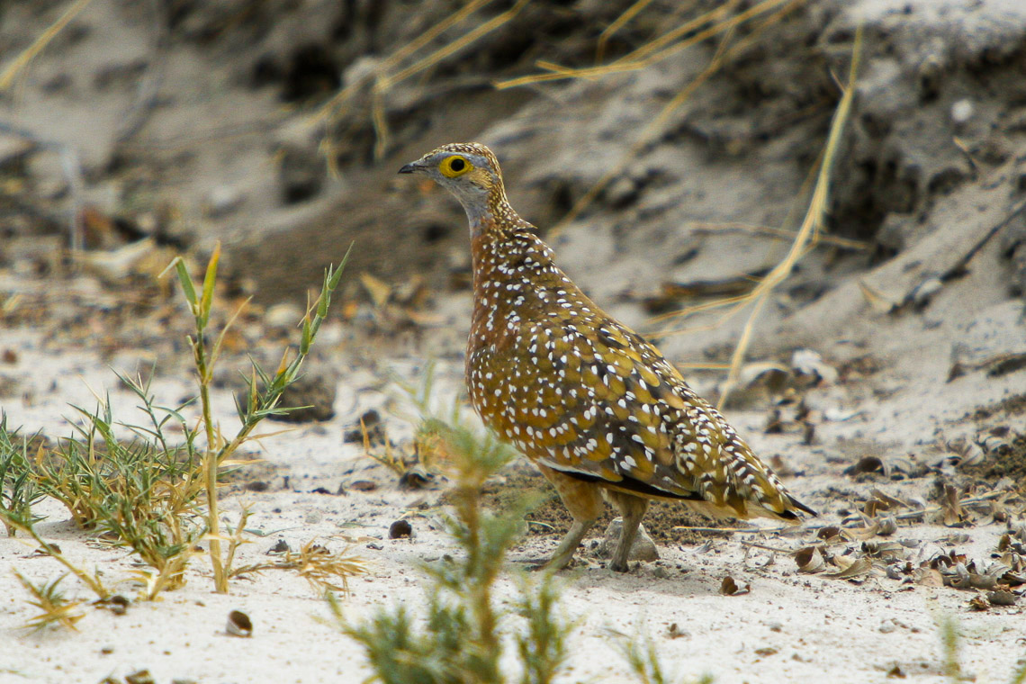 Burchell's Sandgrouse - Etosha 0010